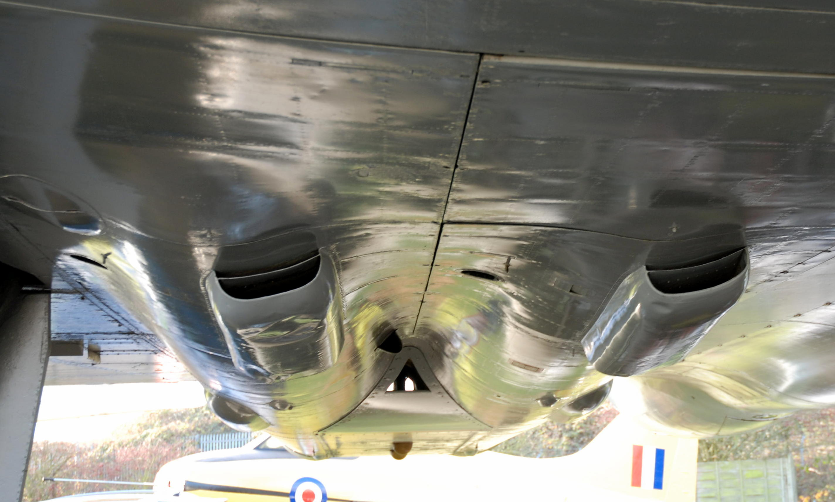 Photo ref; Nikon-D80-2013-DSC_1789 (Edited)